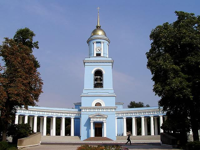 The Cathedral of the Intercession of the Theotokos; Izmail, Odessa Oblast, Ukraine